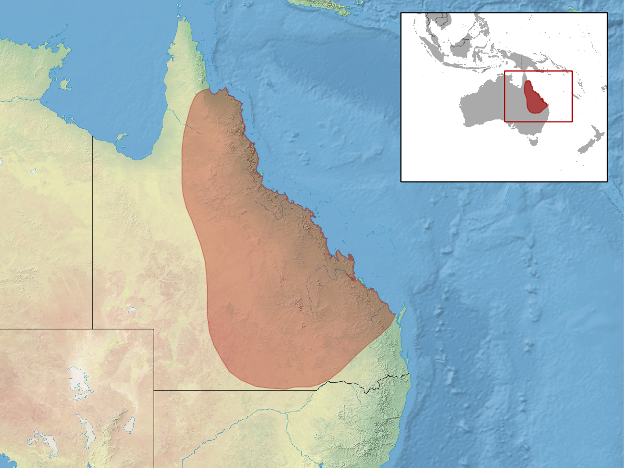 geographic distribution of Egernia rugosa